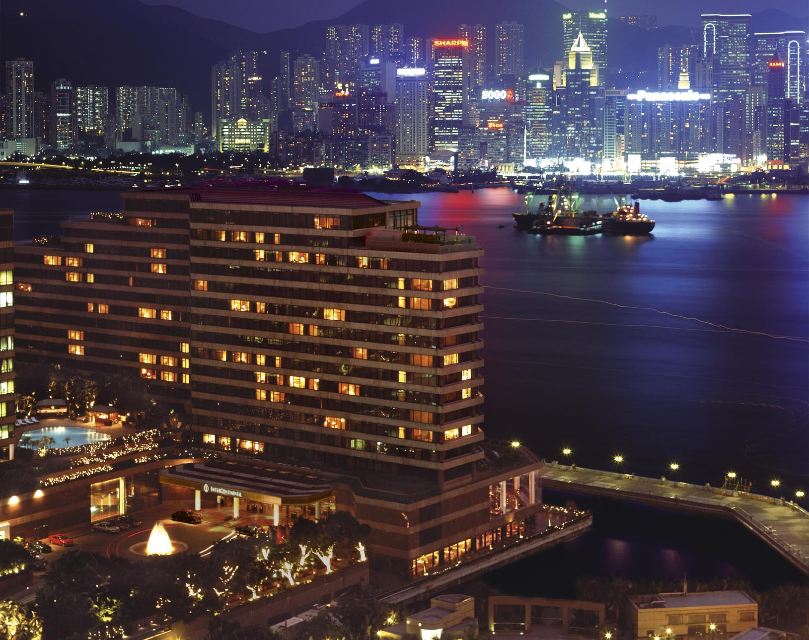 The InterContinental Hong Kong hotel at night.